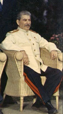 cropped image of Joseph Stalin